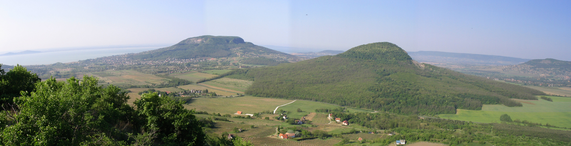 Panorama photo from Tóti hill, showing the hills of Badacsony (left) and Gulács (right), with Lake Balaton in the background.